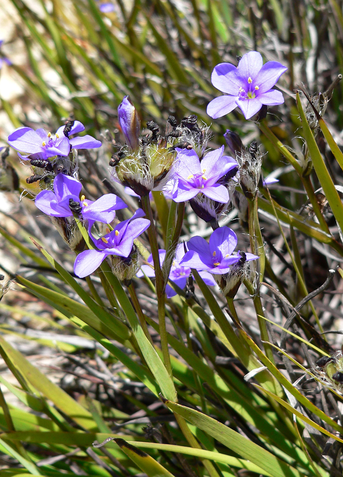 Aristea africana at the University of California Botanical Garden, Berkeley, California